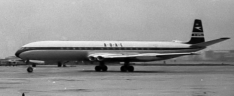 de Havilland Comet of the British Overseas Airways Corporation landing at London Heathrow Airport in 1960.